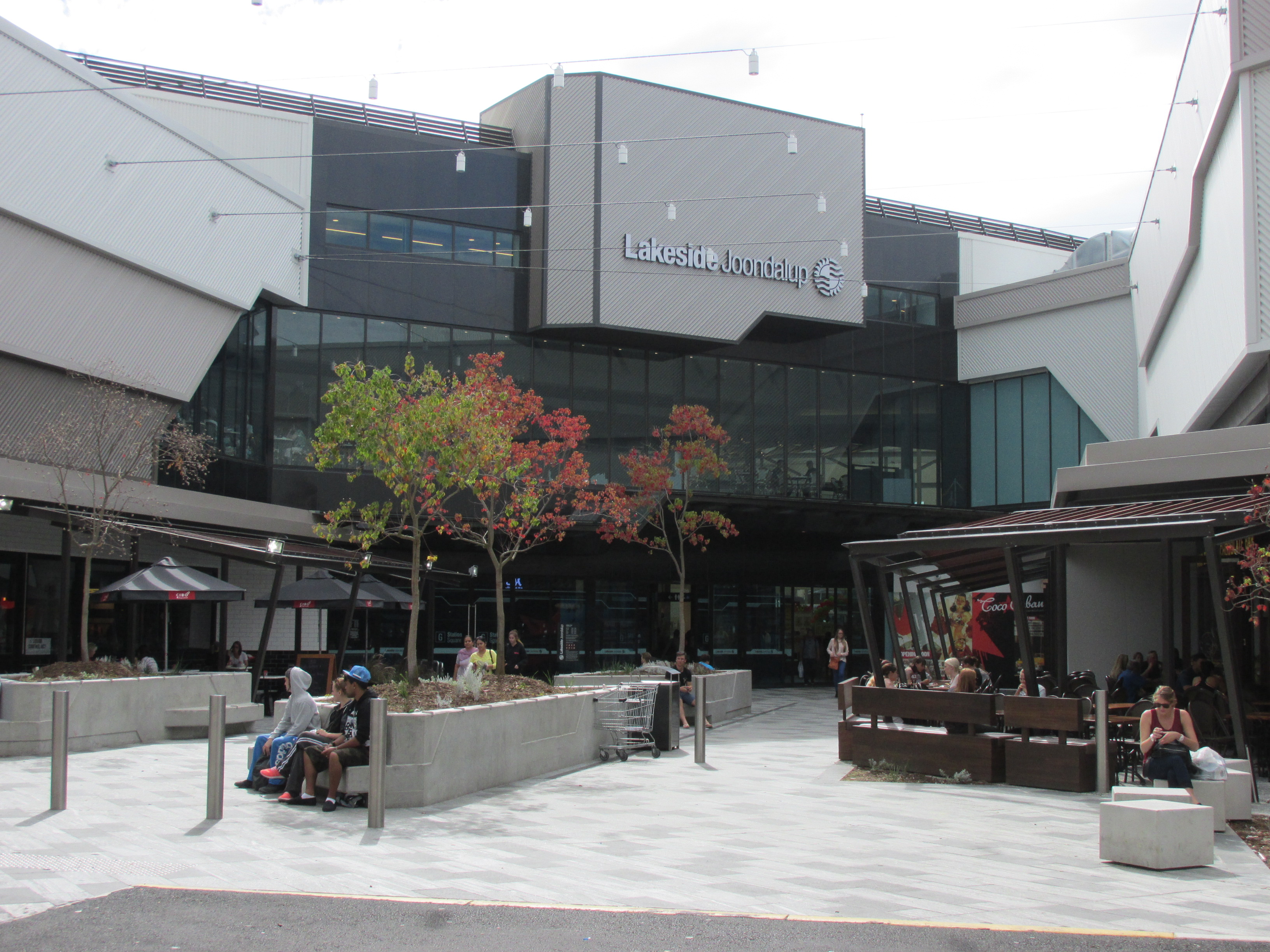 Station Square (constructed in early 2015) at Lakeside Joondalup Shopping City, Joondalup, Western Australia.